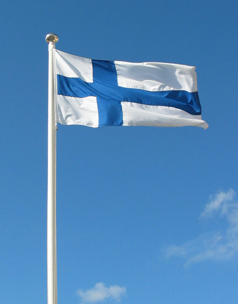 Flag of Finland, photograph